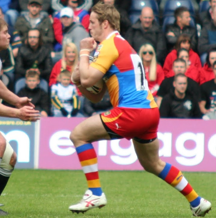 Oliver Wilkes Quins